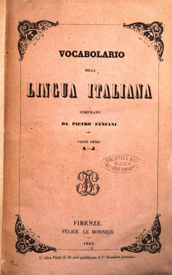 front page